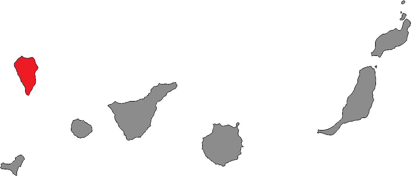 Canarian Parliament district of La Palma.